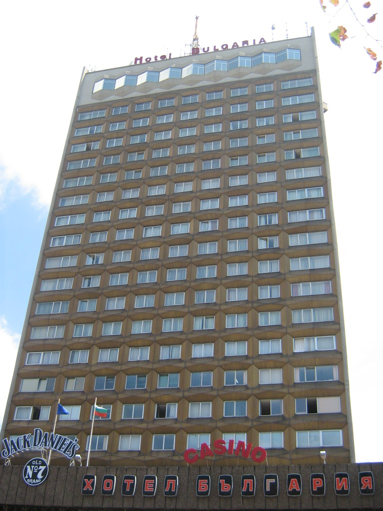 Hotel Bulgaria - 71 m high building situated in the heart of Burgas.